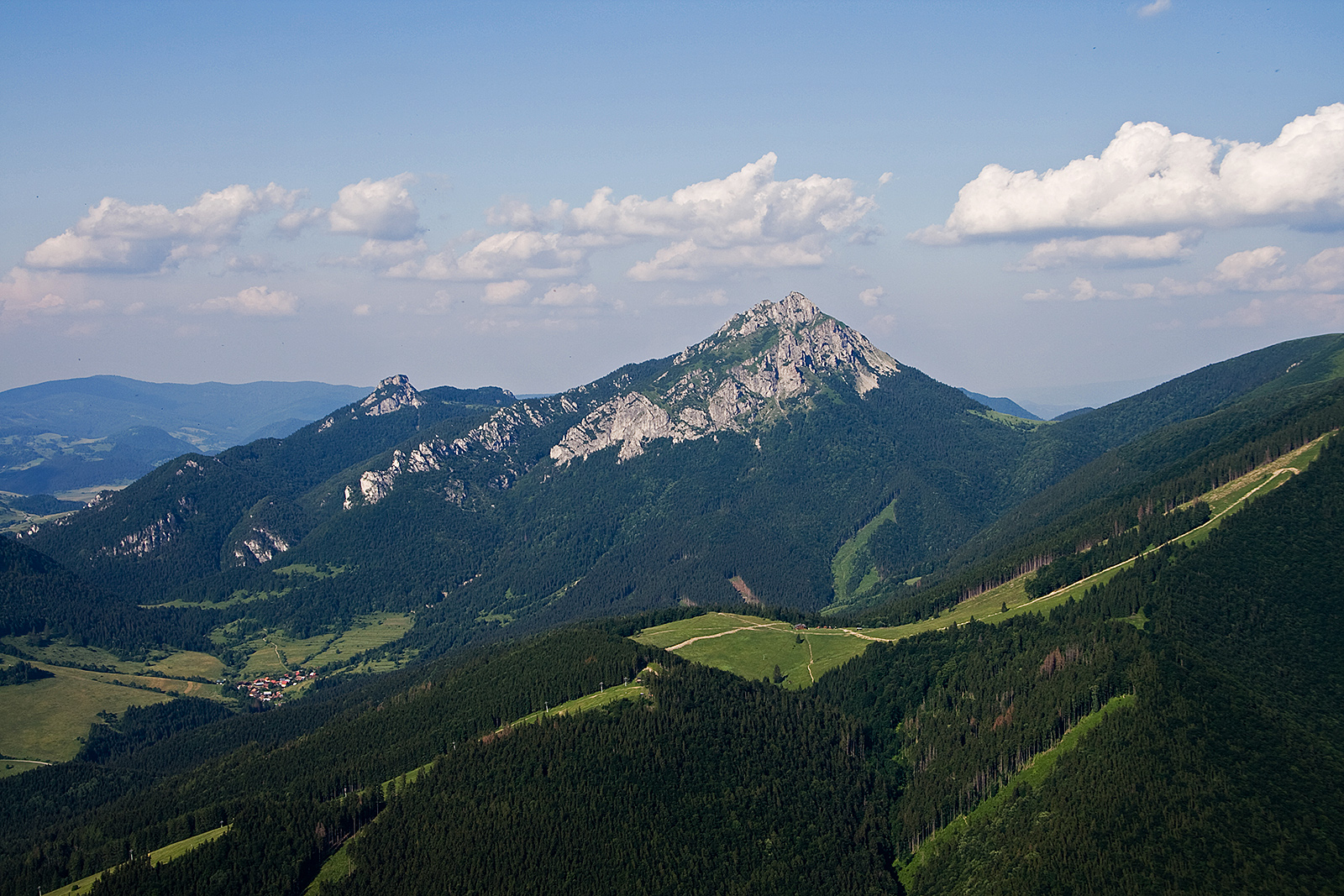 Velky Rozsutec from Kraviarske